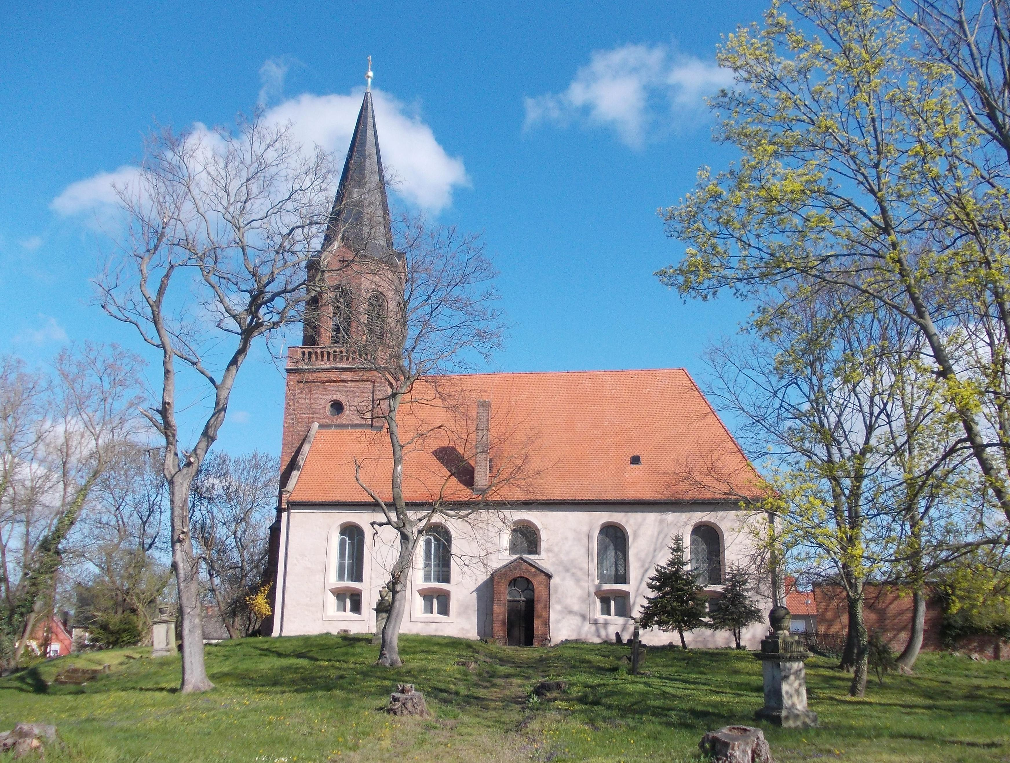 Osternienburg church (Osternienburger Land, Anhalt-Bitterfeld district, Saxony-Anhalt)